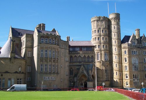 A photograph of the East Entrance of the Old College of Aberystwyth University.